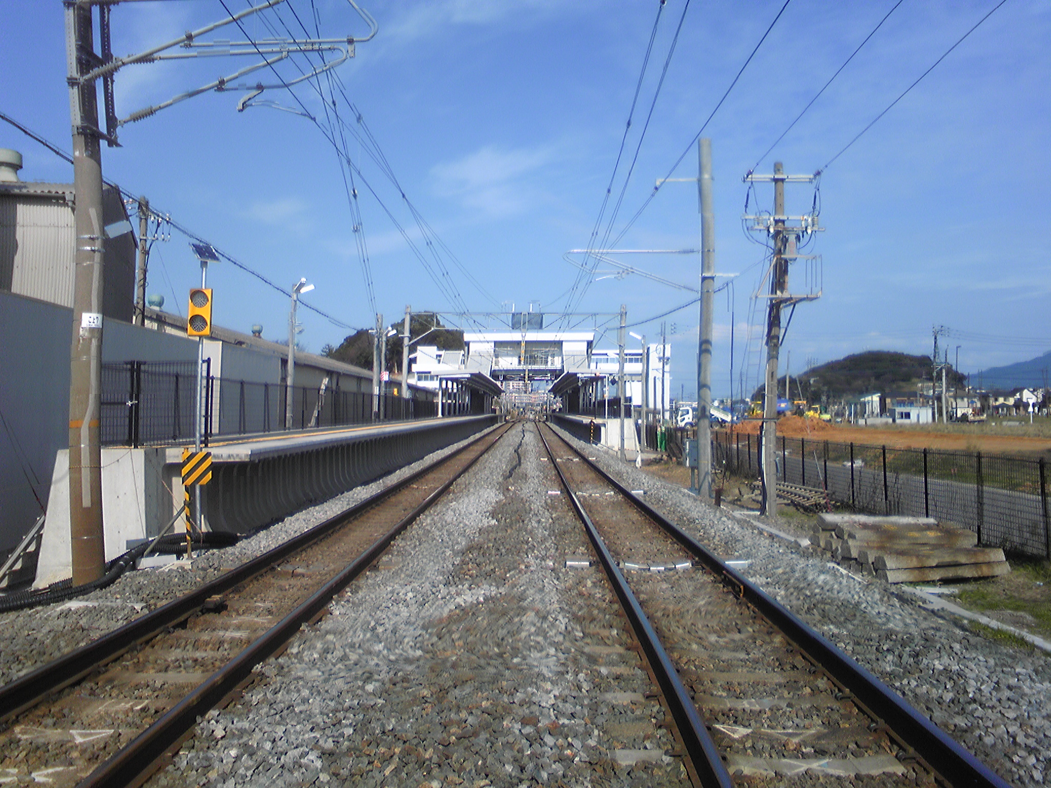 Shishibu Station platform, facing toward Kokura